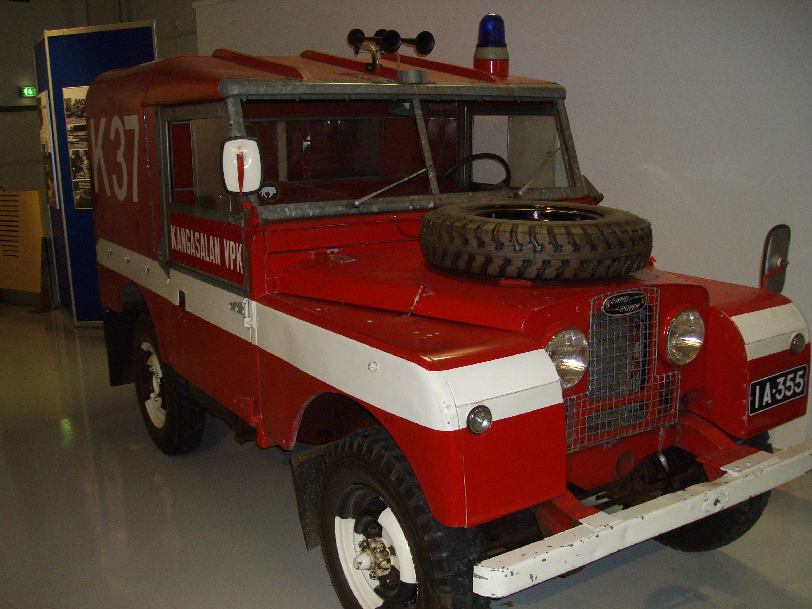 Land Rover 1955 fire engine belonged to volunteer fire-brigade of Kangasala, Finland, now belongs to Automobile and road museum Mobilia, Kangasala, Finland